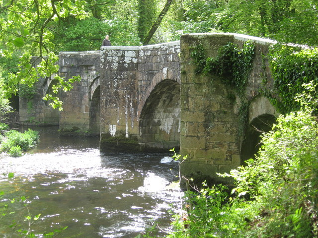 Bridge across the Fowey river at Lanhydrock